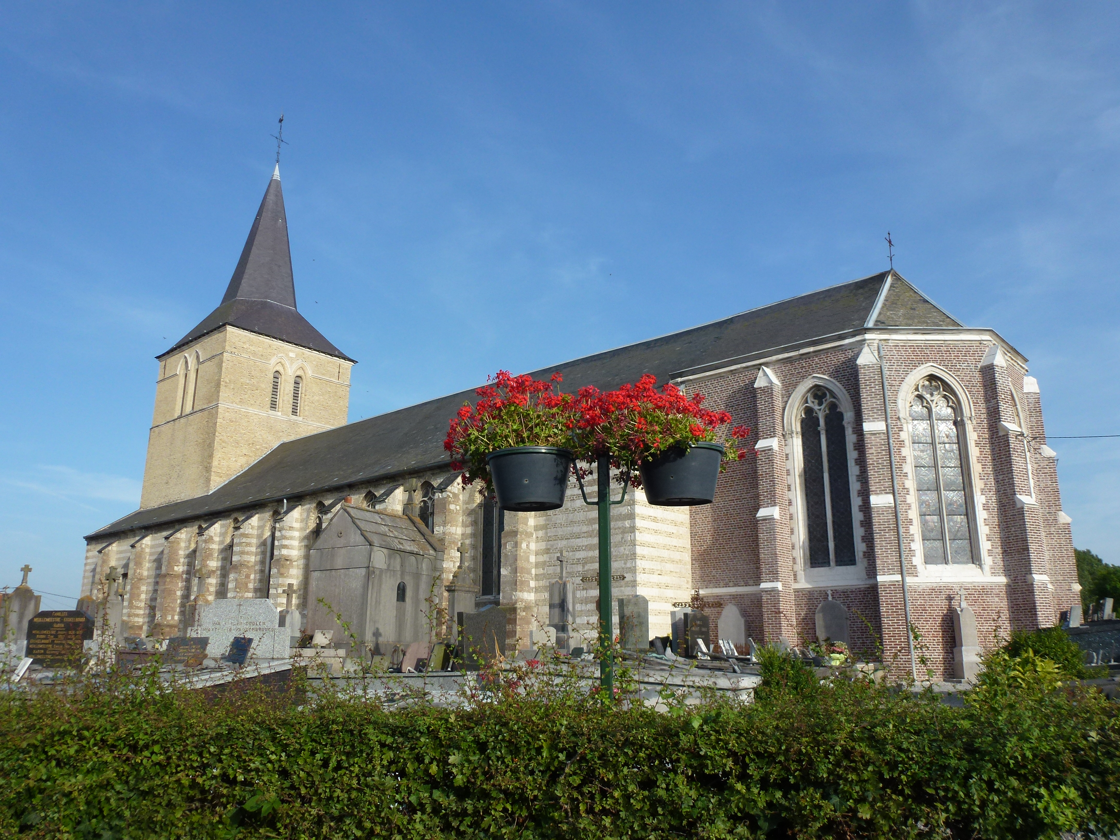 Zutkerque (Pas-de-Calais) église Saint-Martin